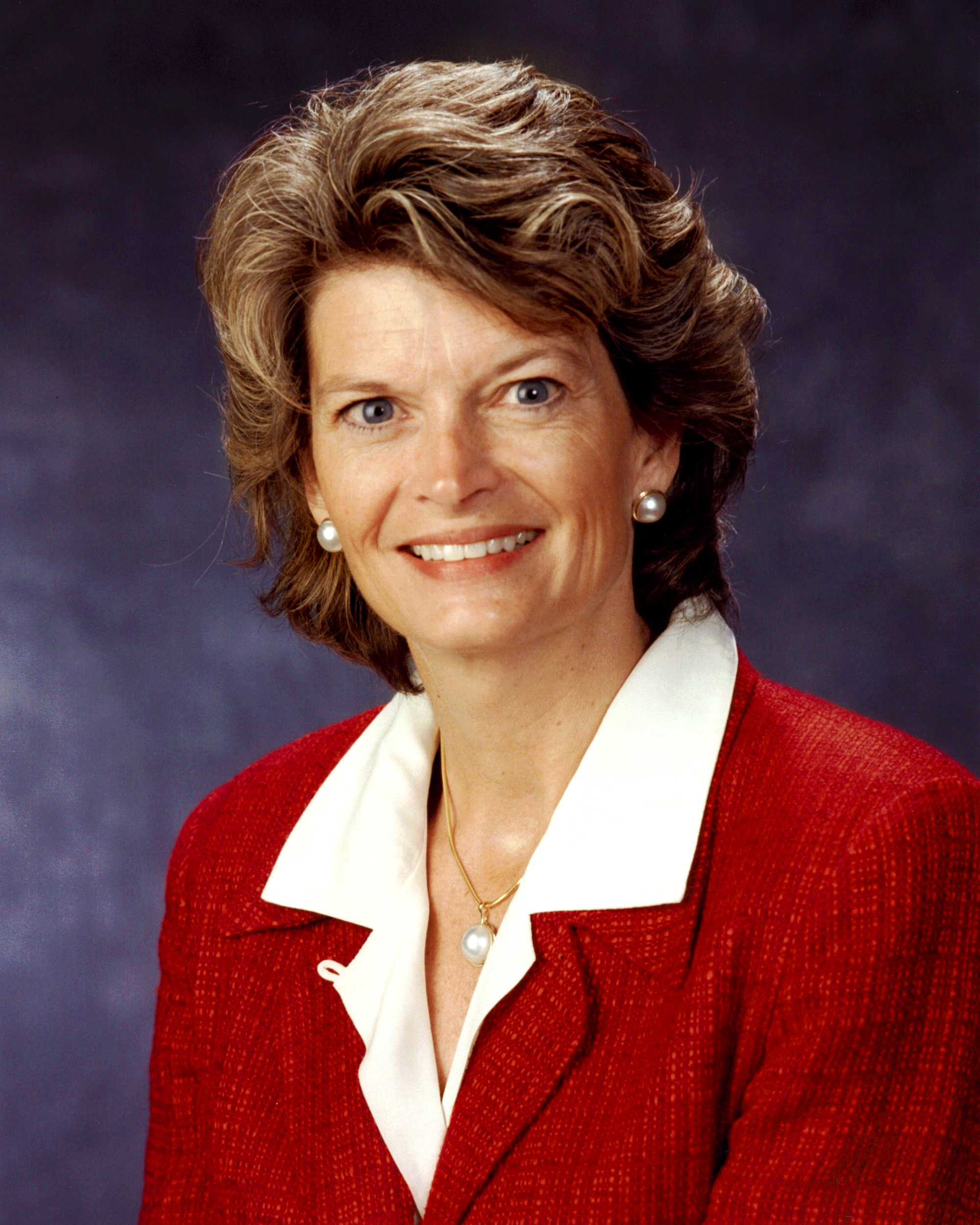 Lisa Murkowski, United States Senator from Alaska